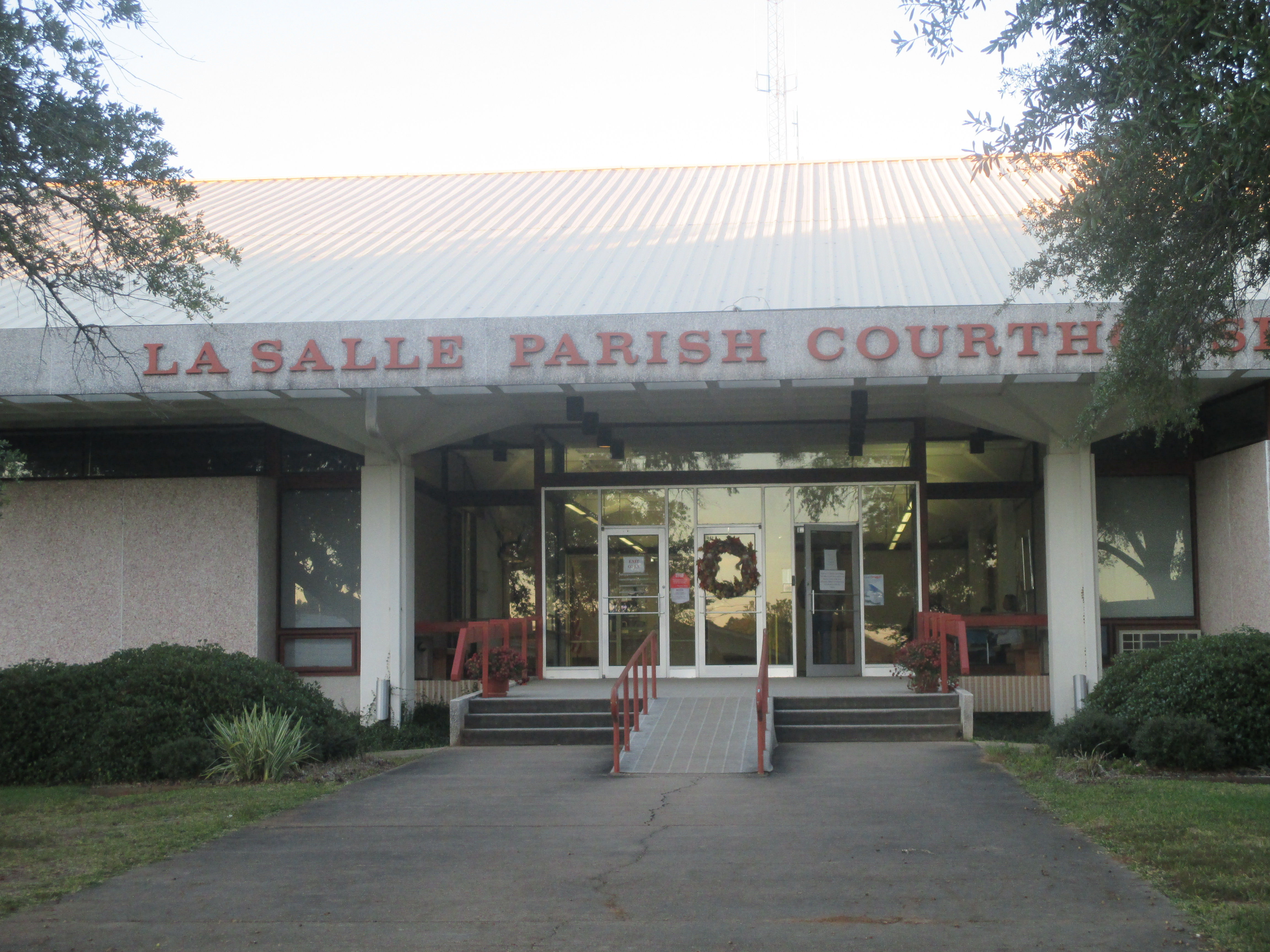 I took photo of La Salle Parish Courthouse in Jena, LA, with Canon camera.